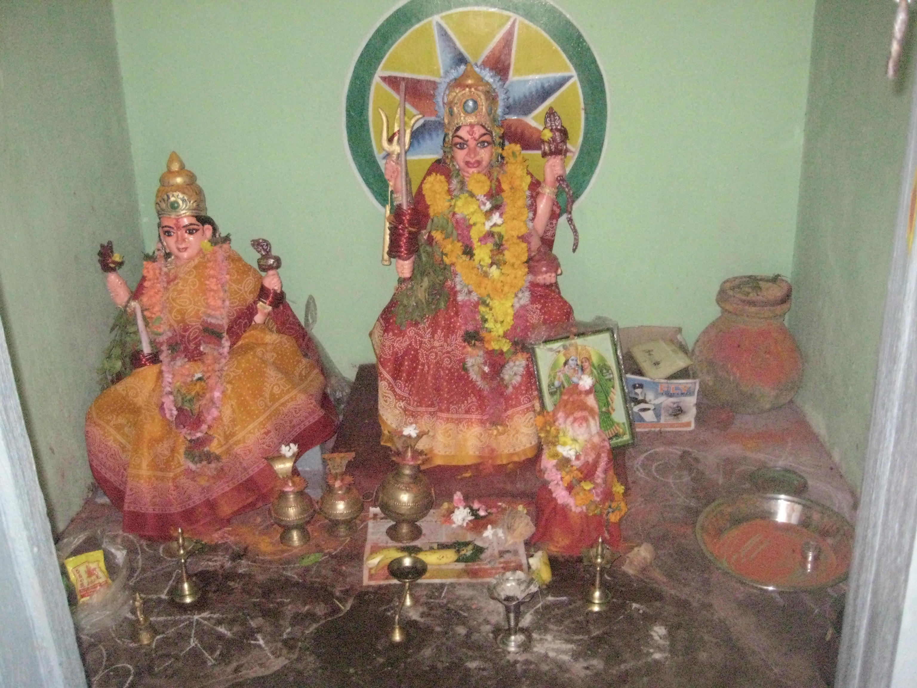 Ballamma in Korukollu